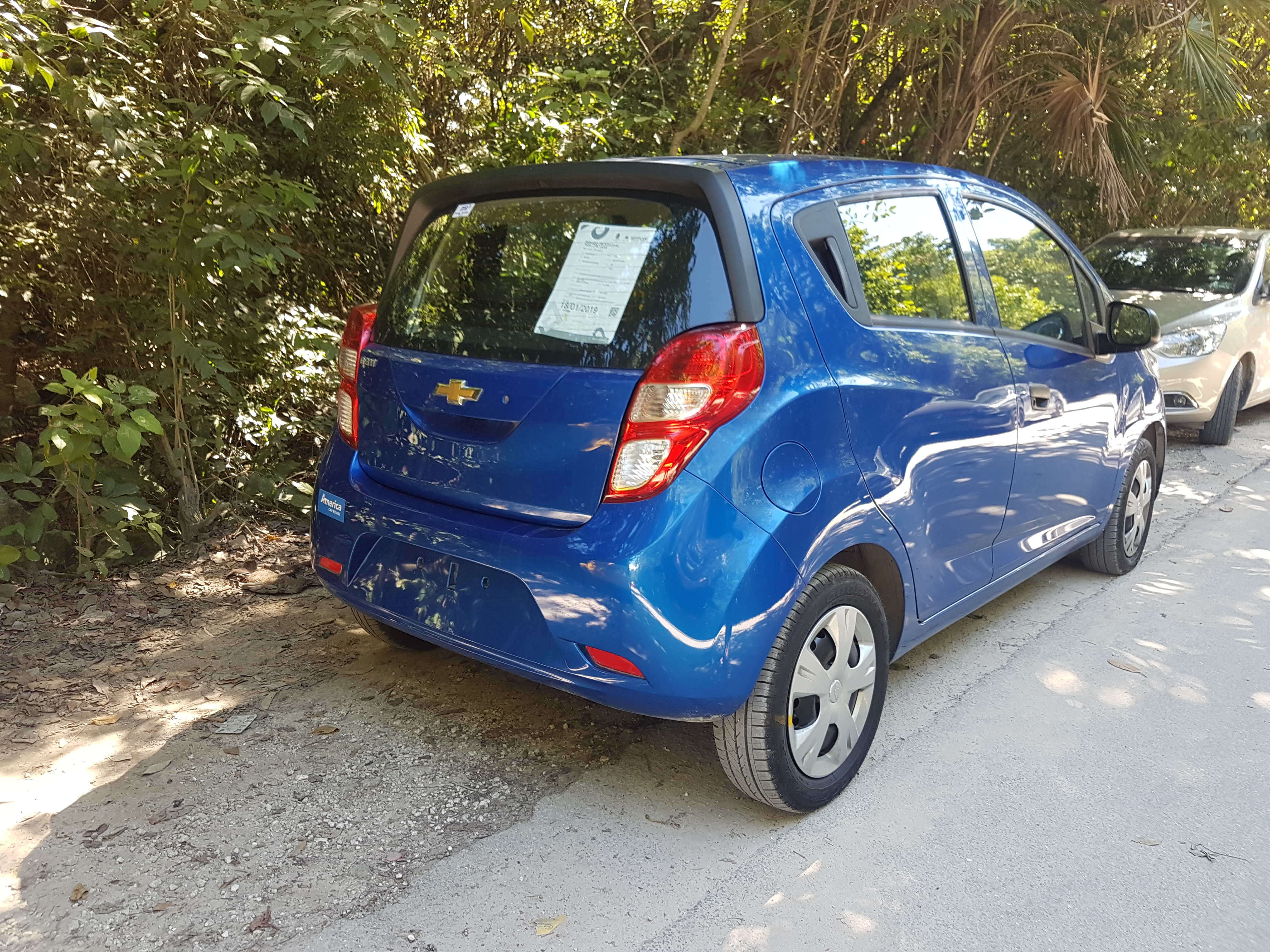 Mexican market Chevrolet Beat